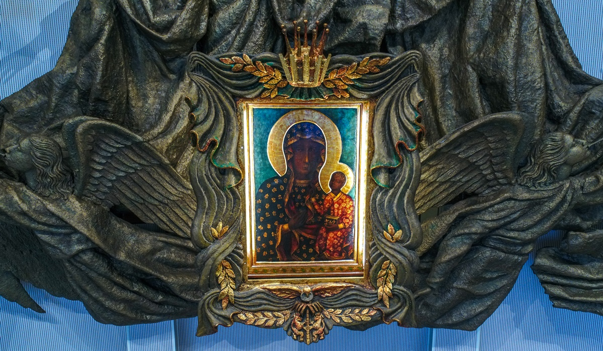 Shrine of Our Lady of Czestochowa (Doylestown, PA) - Main Church Górny Kościół